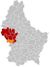 Own edit of Kanton RedangeLocatie.png